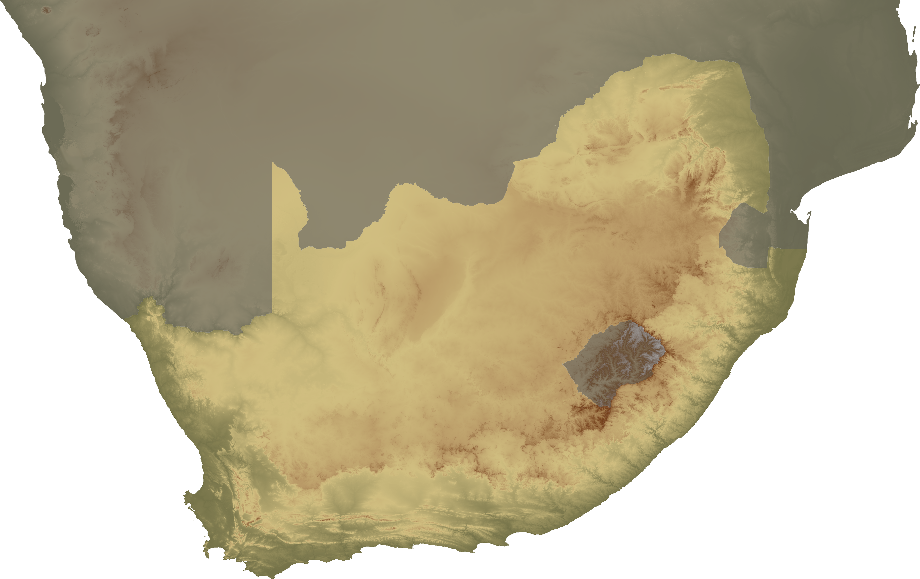 Topographical map of South Africa, continent version